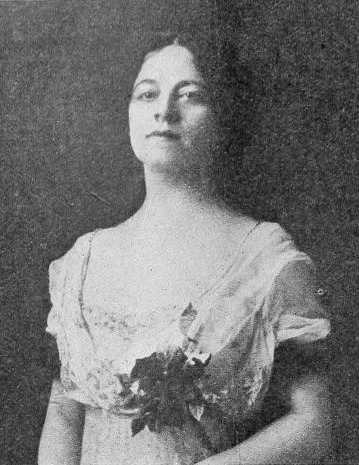 Actress and singer Diamond Donner